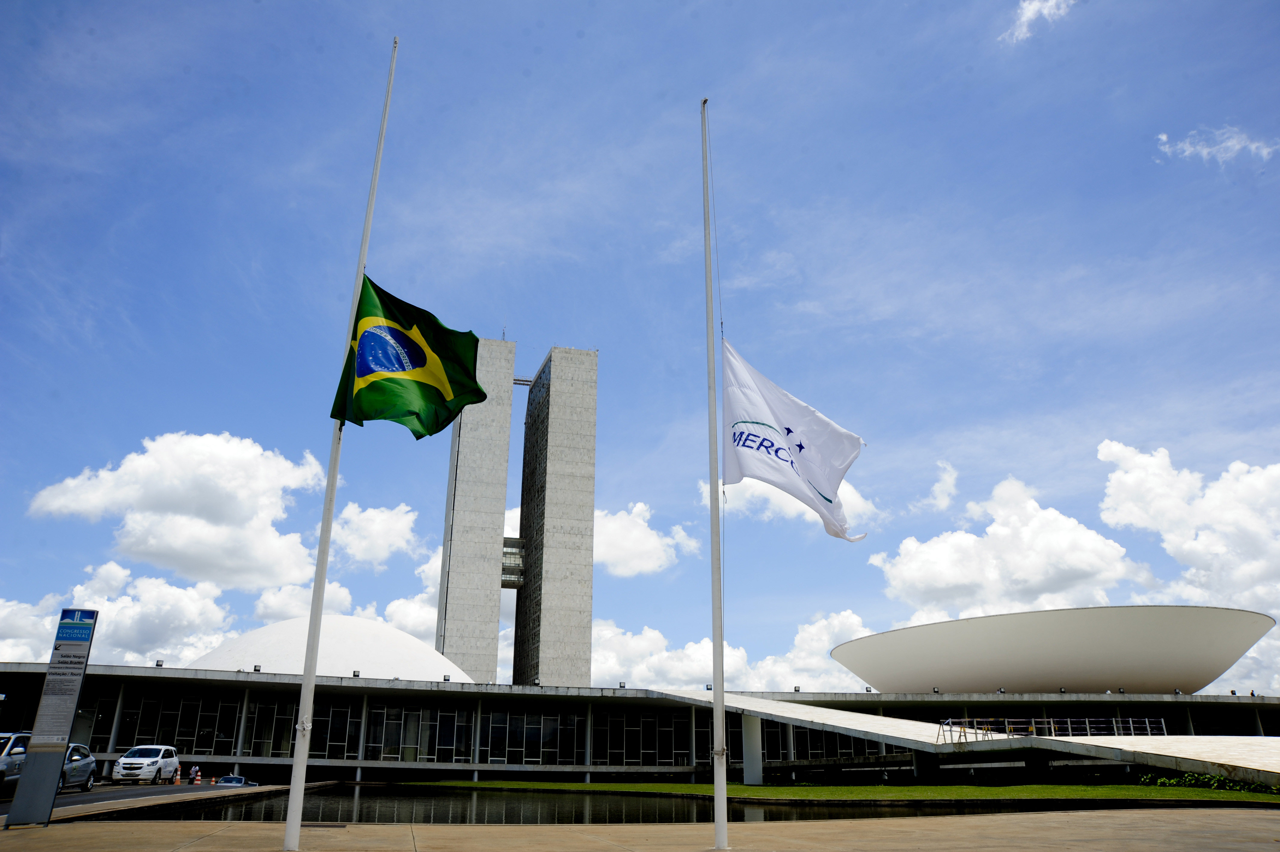 Half-mast flags of Brazil and Mercosur at the Palácio Nereu Ramos, Brasilia, after the crash of LaMia Airlines Flight 2933.